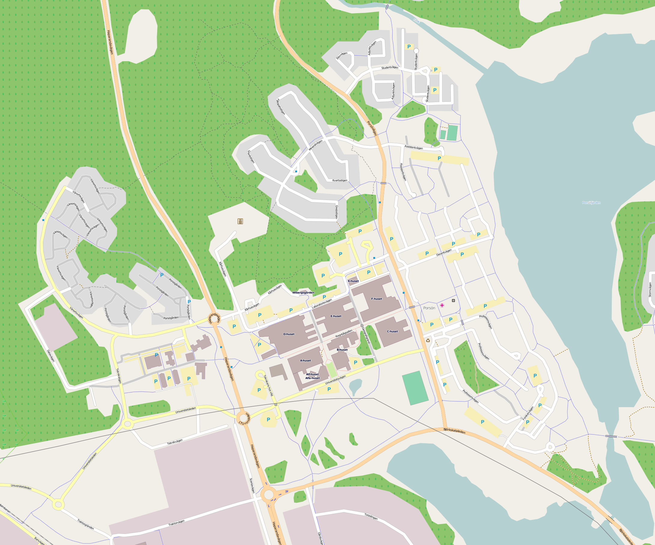 This map of Porsön was created from OpenStreetMap project data, collected by the community. This map may be incomplete, and may contain errors. Don't rely solely on it for navigation.